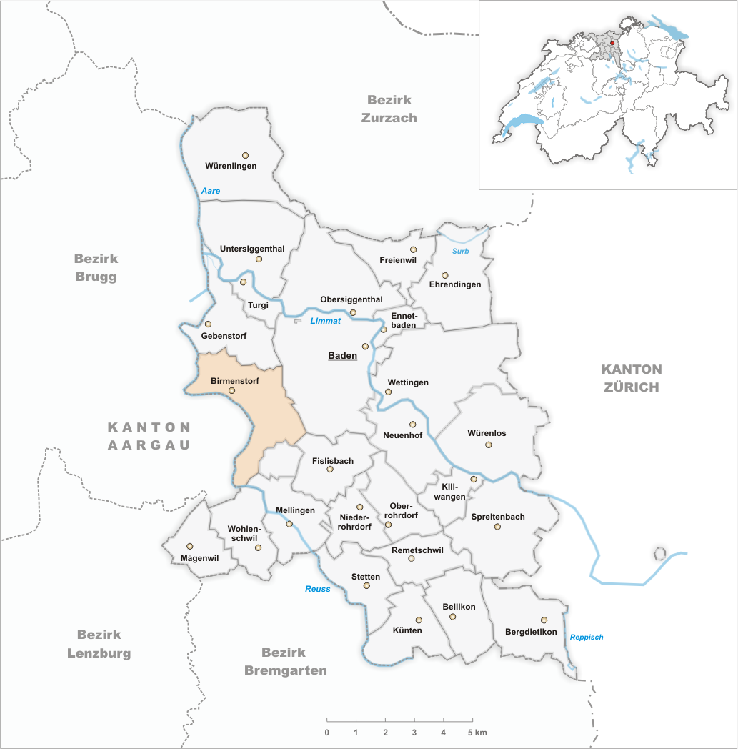 Municipality Birmenstorf